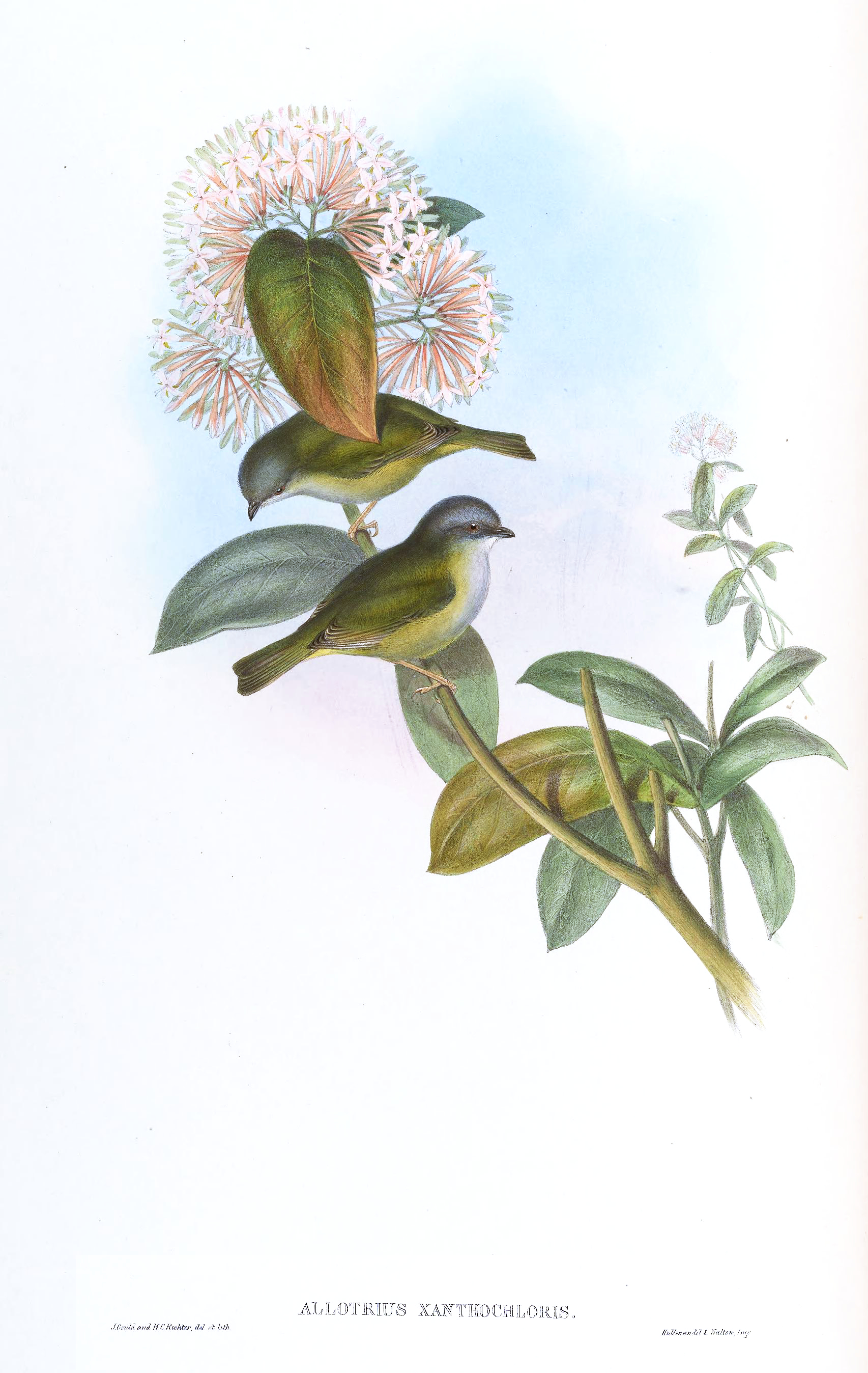 Allotrius xanthochloris = Pteruthius xanthochlorus[1]